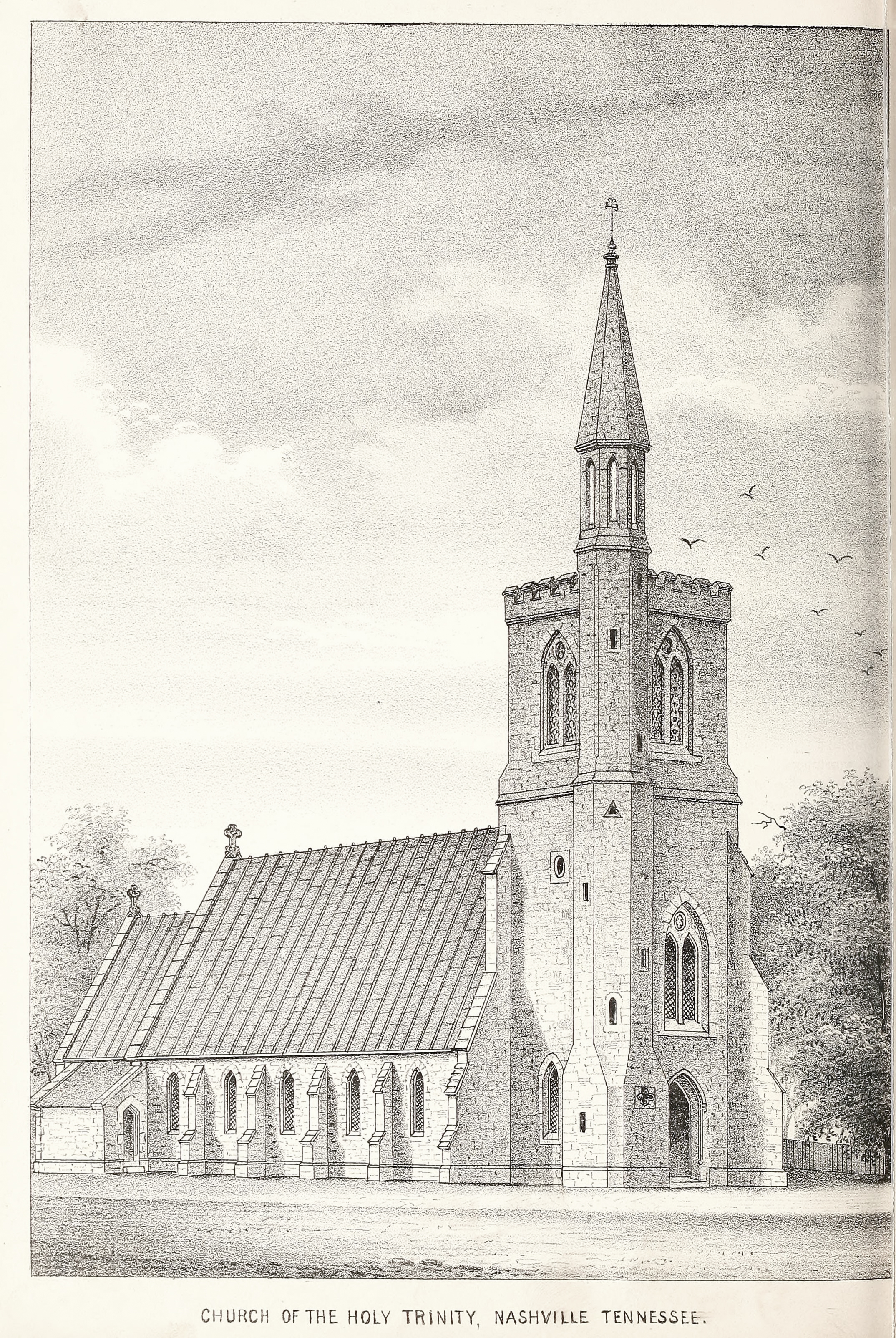 Etching of the Church of the Holy Trinity, Nashville, Tennessee. Published in "History of Davidson County, Tennessee, with illustrations and biographical sketches of its prominent men and pioneers," by W. W. Clayton, 1880.